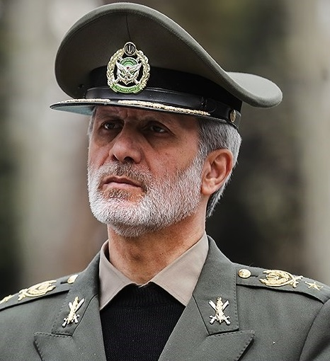 Amir Hatami